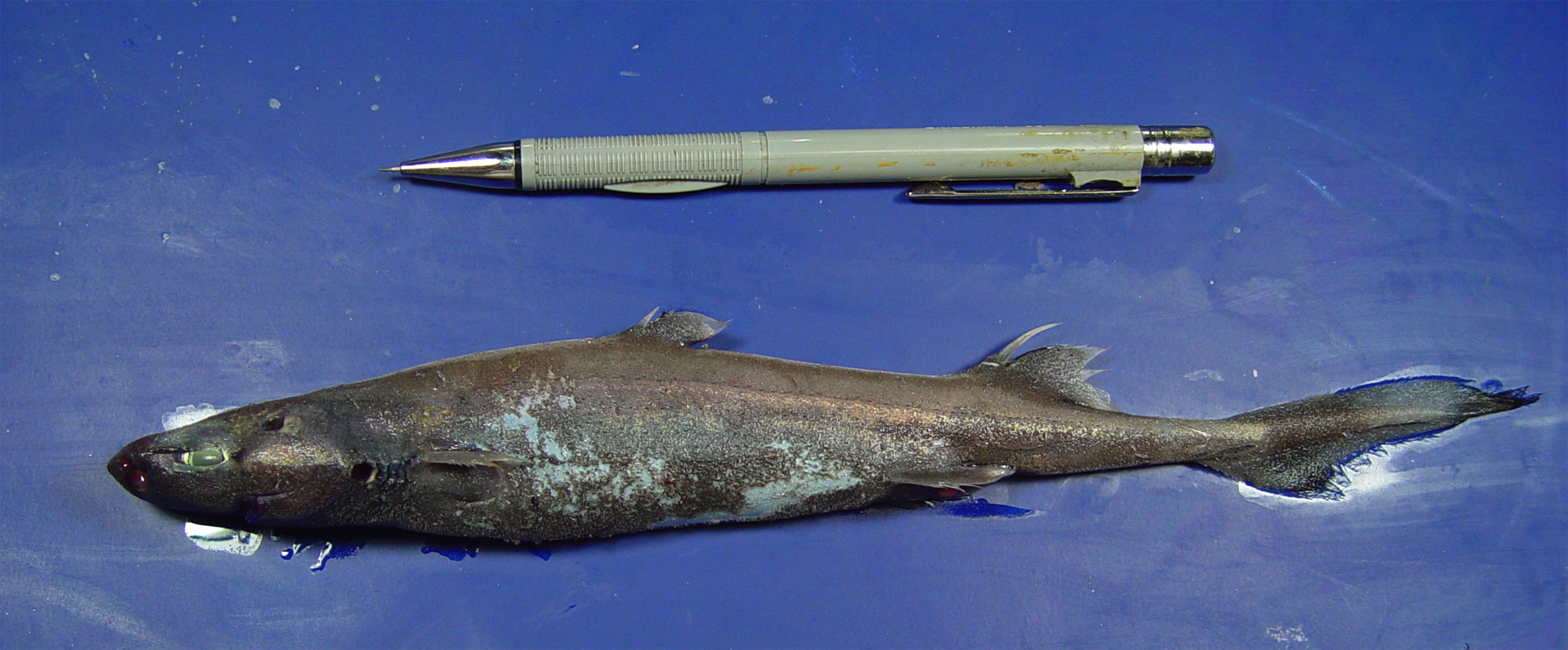 Etmopterus schultzi from the Gulf of Mexico